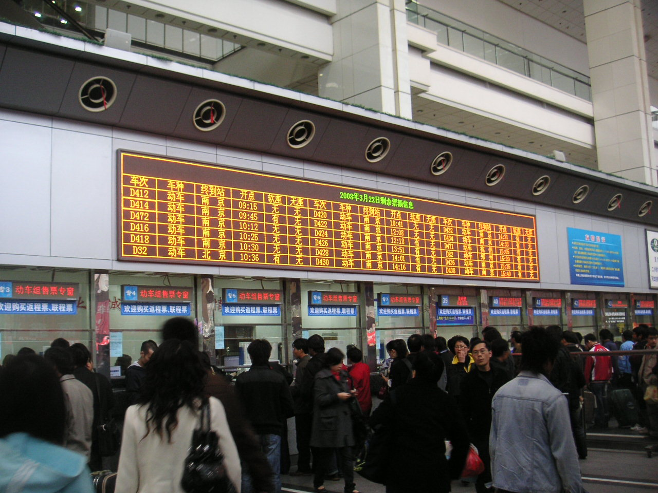 Ticket windows in the main building (south side) of Shanghai railway station